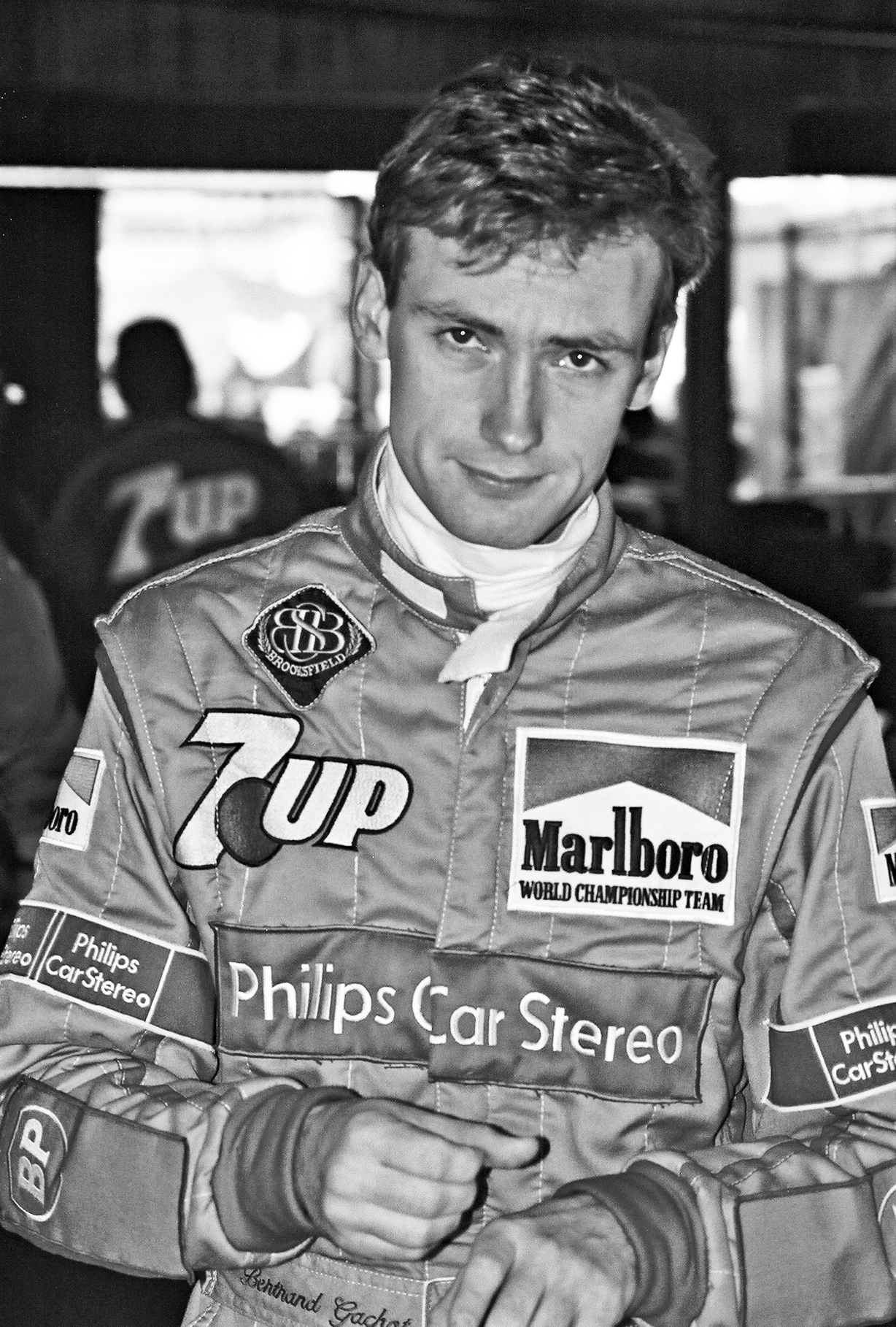 Bertrand Gachot - 1991 Formula One United States Grand Prix - Phoenix, AZ